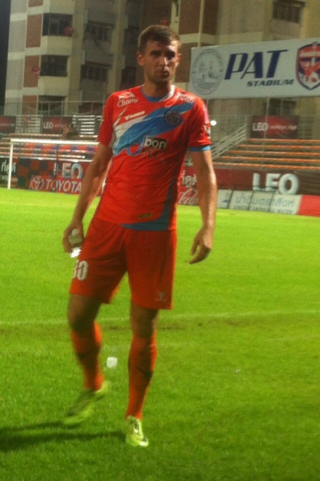 Andriy Protsyk